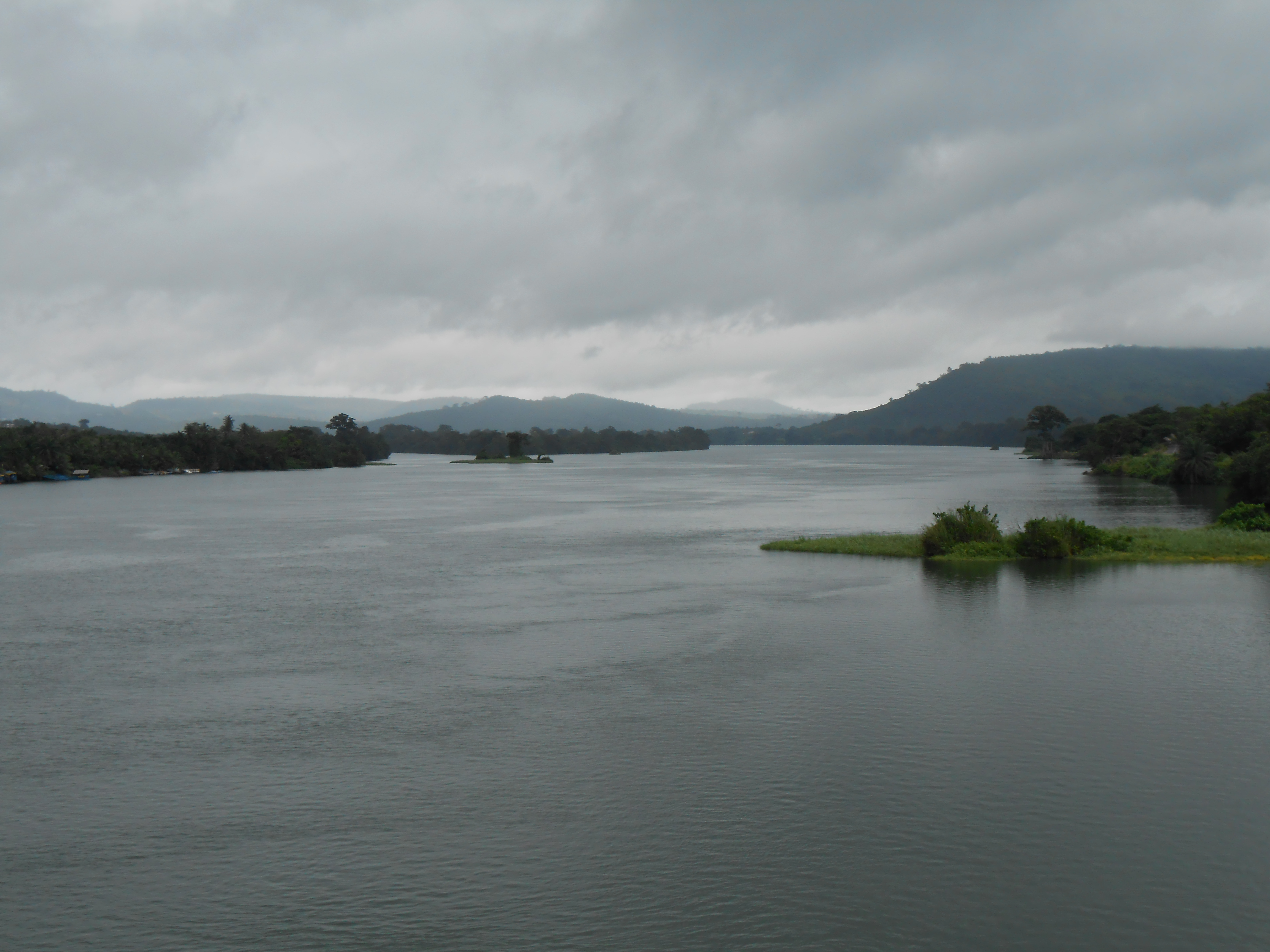 Volta River at Akusambo near to Akusambo bridge